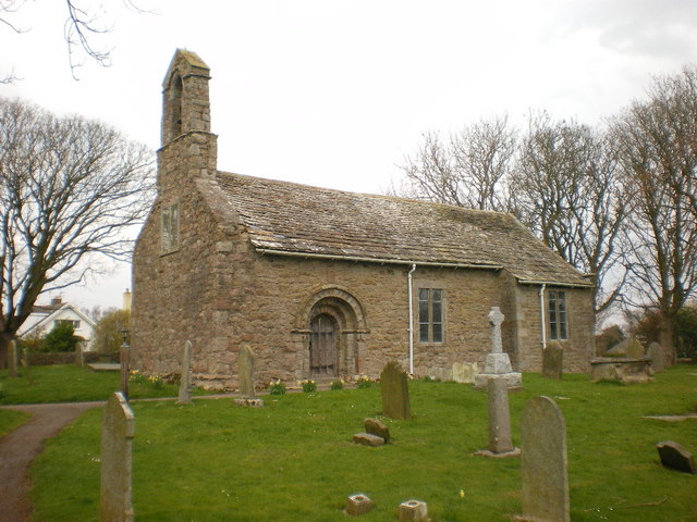 The Parish Church of St Helens, Overton